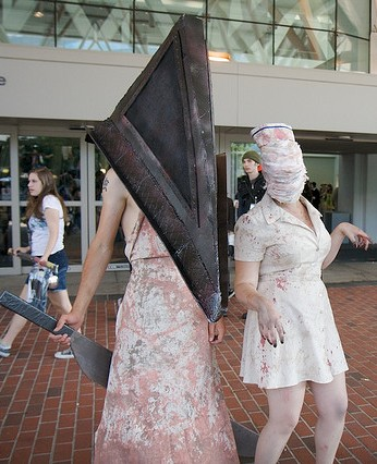 Otakon 2009. Pyrmid Head and Nurses from Silent Hill 2